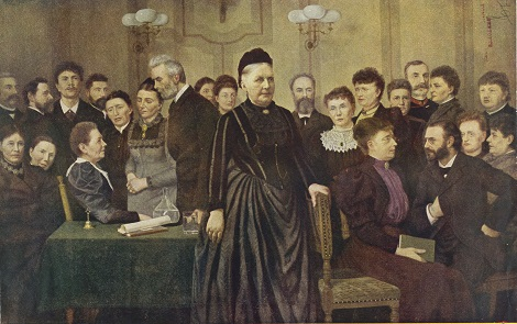 Marie Luplau - Fra Kvindevalgretskampens første dage (1897)